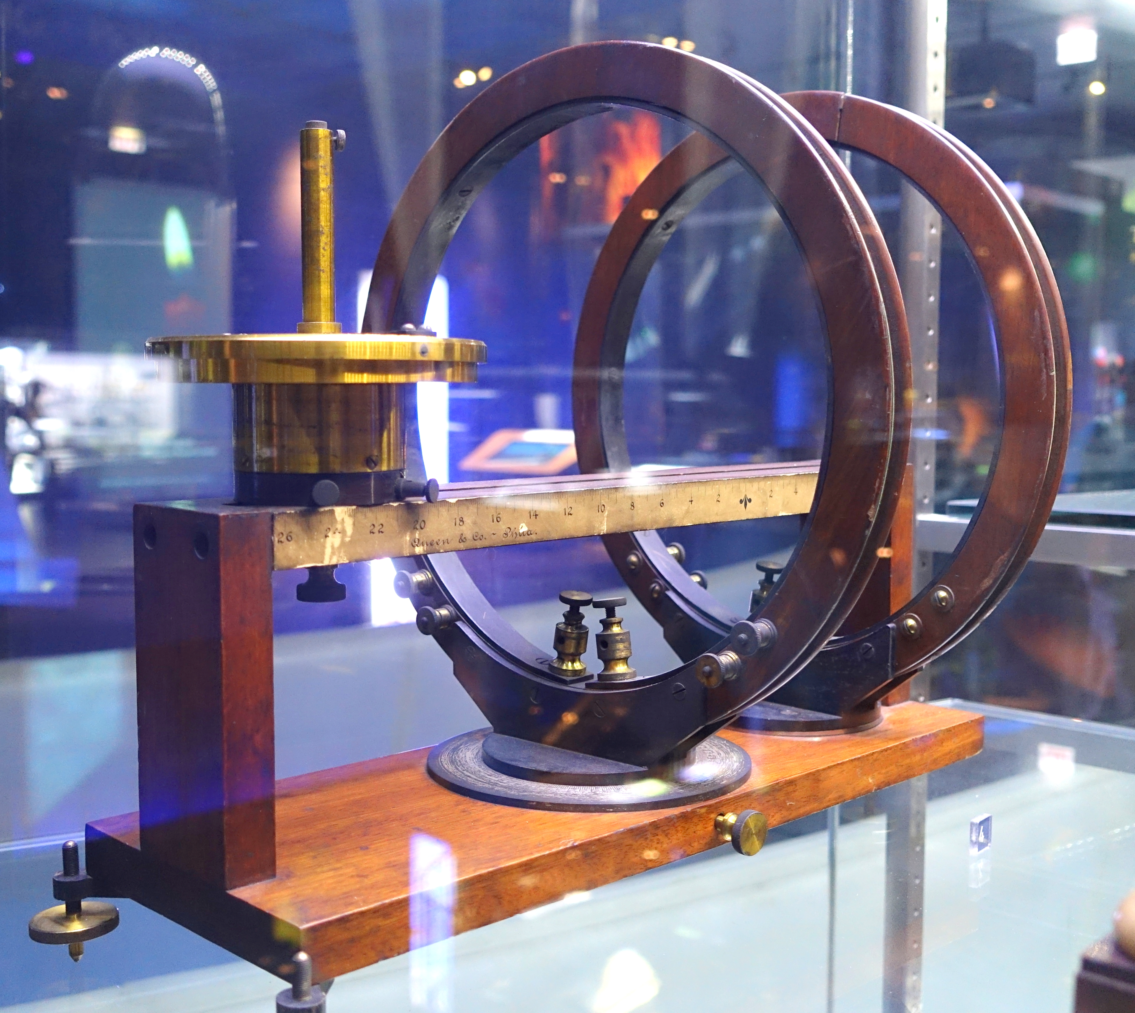 Exhibit in the Museum of Science and Industry, Chicago, Illinois, USA.